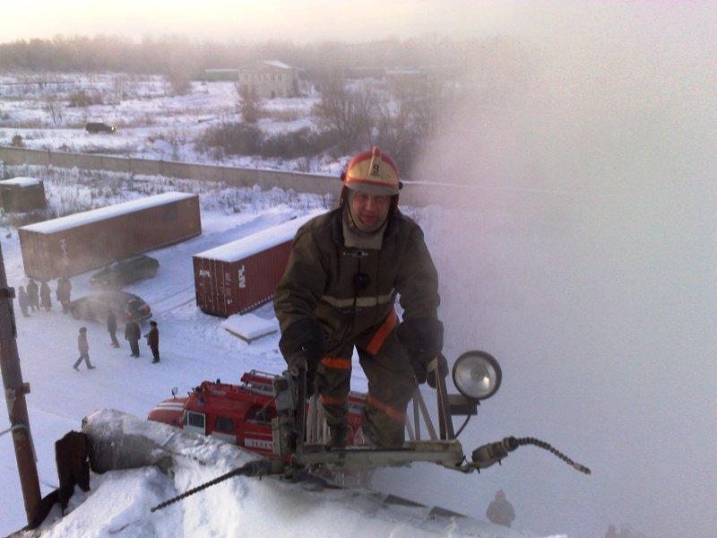 Work of Russian firefighters from Siberia